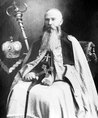 Blessed Jozafat Kocyłowski